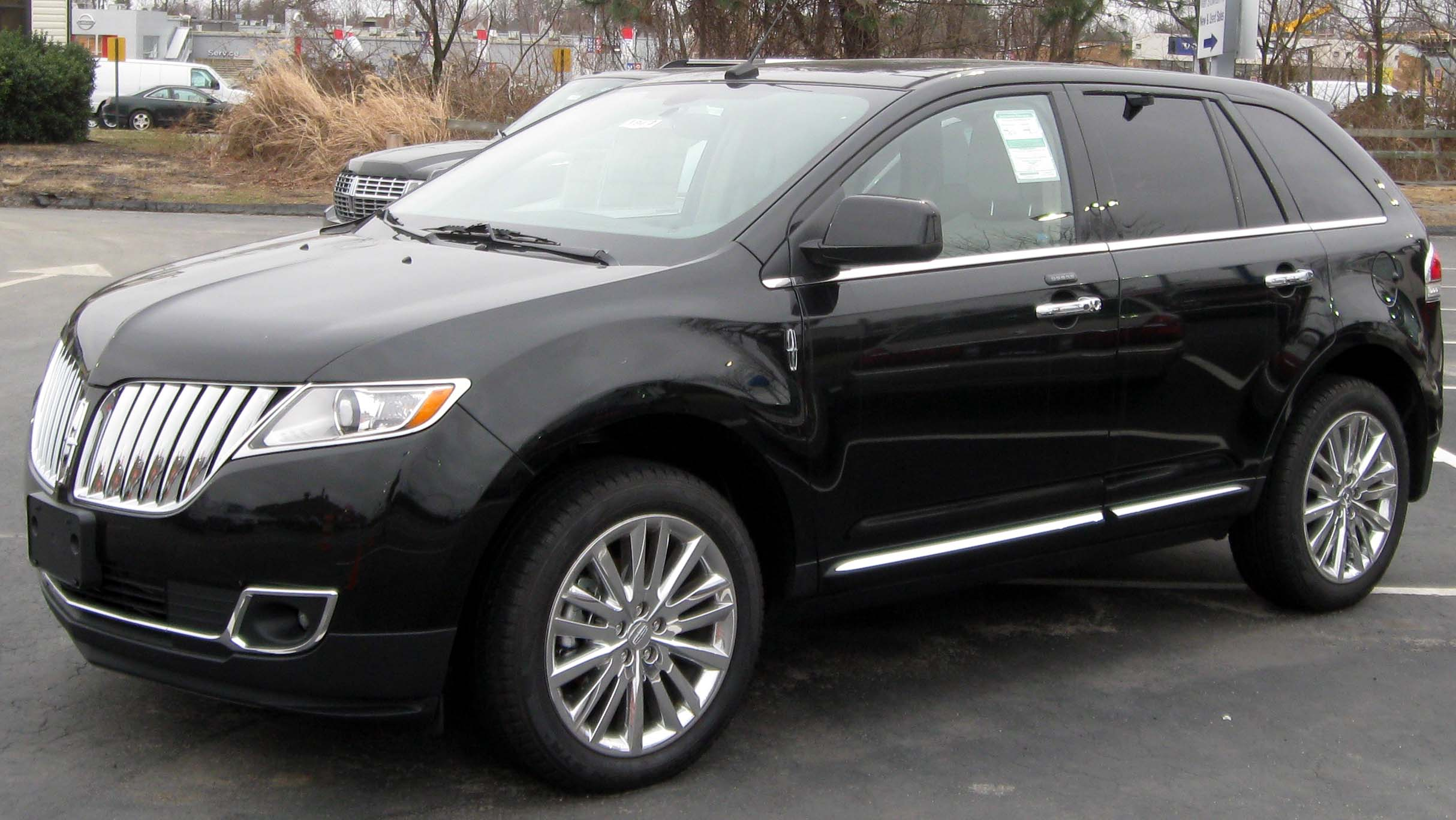 2011 Lincoln MKX photographed in Silver Spring, Maryland, USA.